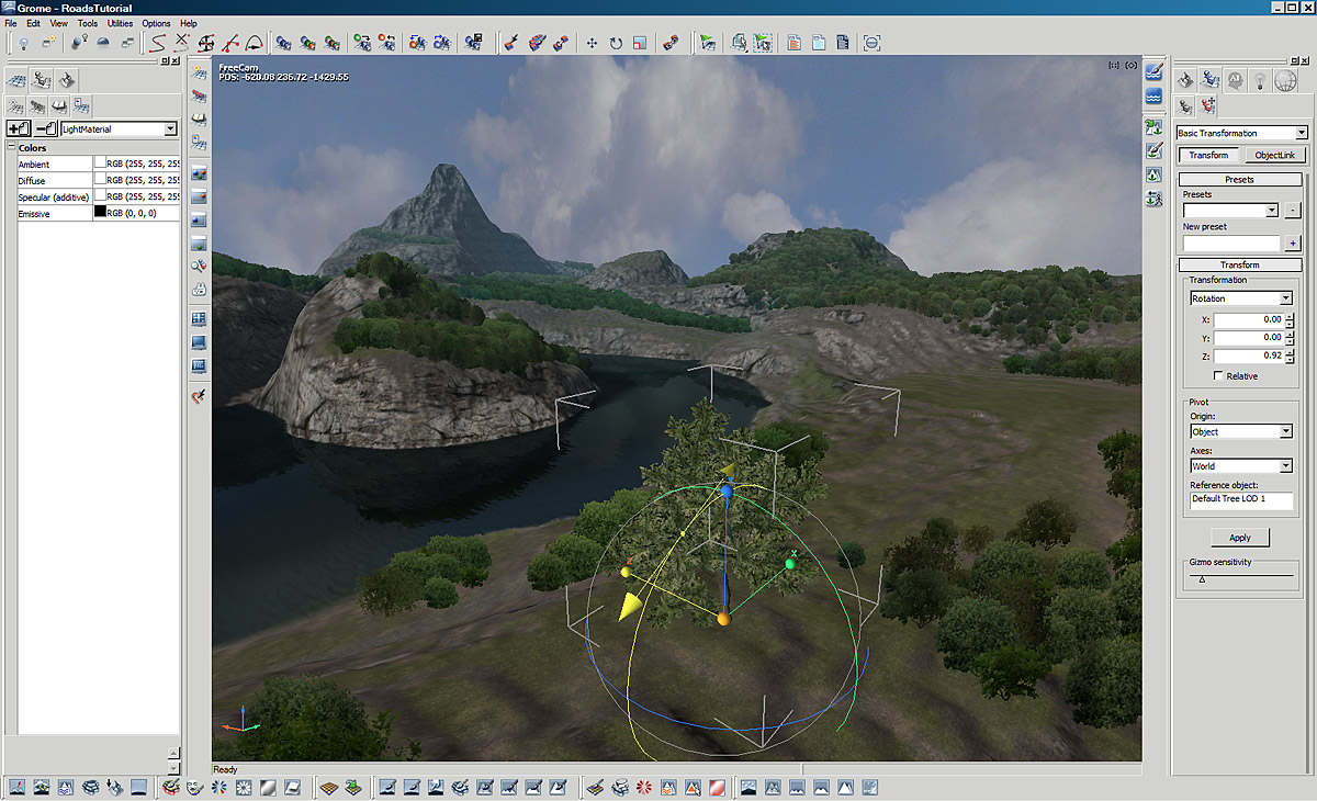 Grome User Interface showing how to transform objects using 3D gizmos.